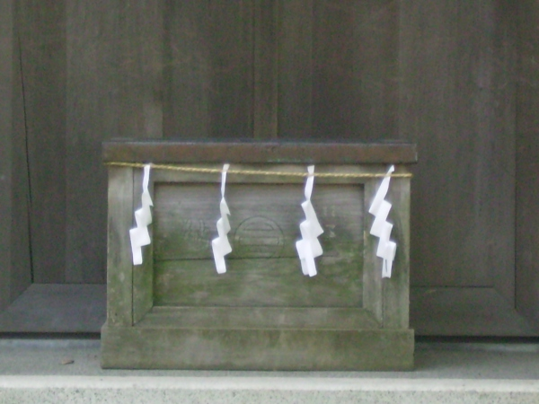 Lightning bolt-shaped kirigami (said to protect an area from evil spirits), near the grave of Minamoto Yoritomo, Kamakura, Japan.